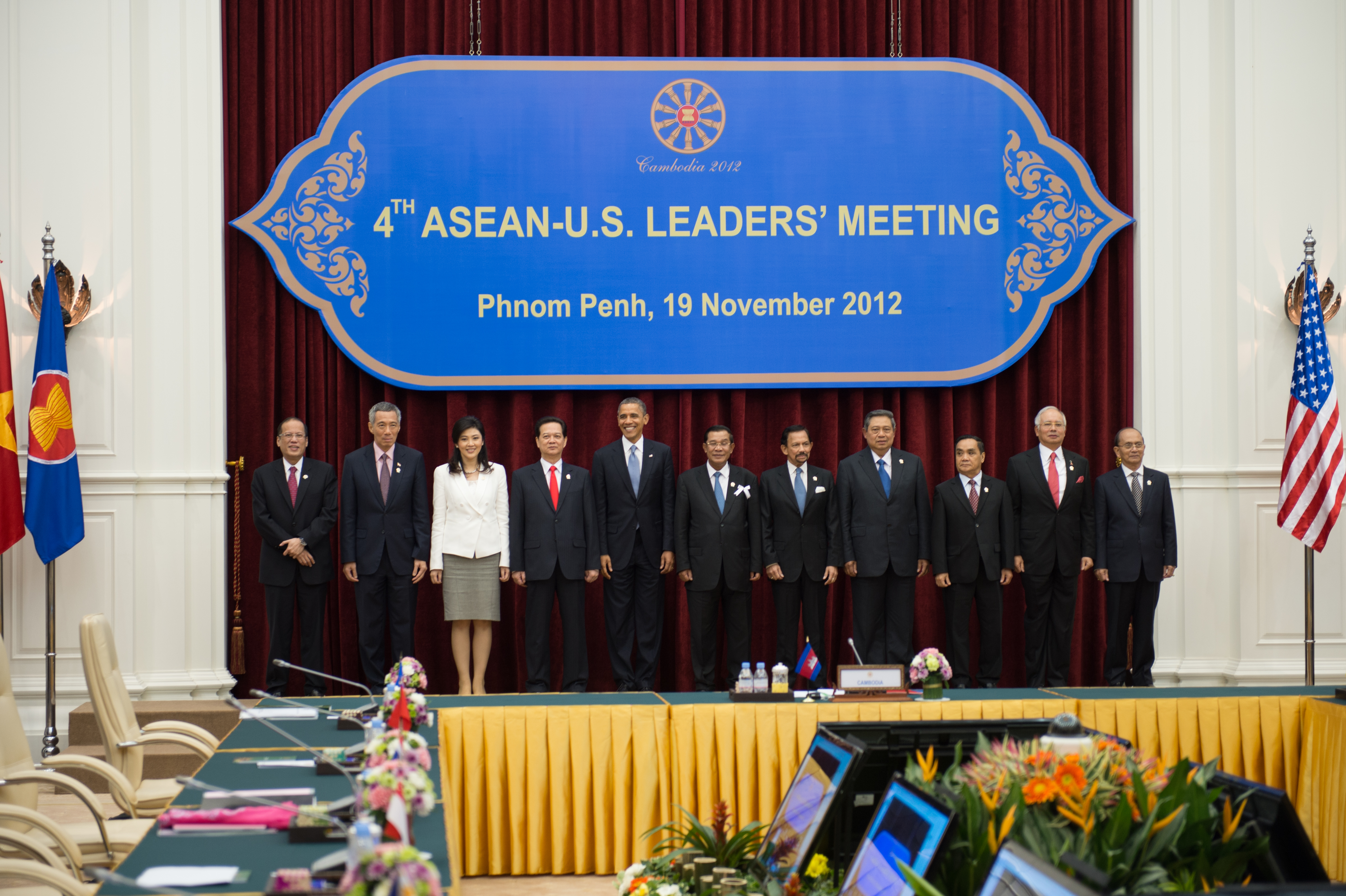 PHNOM PENH, Cambodia (November 19, 2012) U.S. President Barack Obama attends the ASEAN-United States Leaders' Meeting at the Peace Palace. President Obama is the first U.S. President to visit Cambodia.